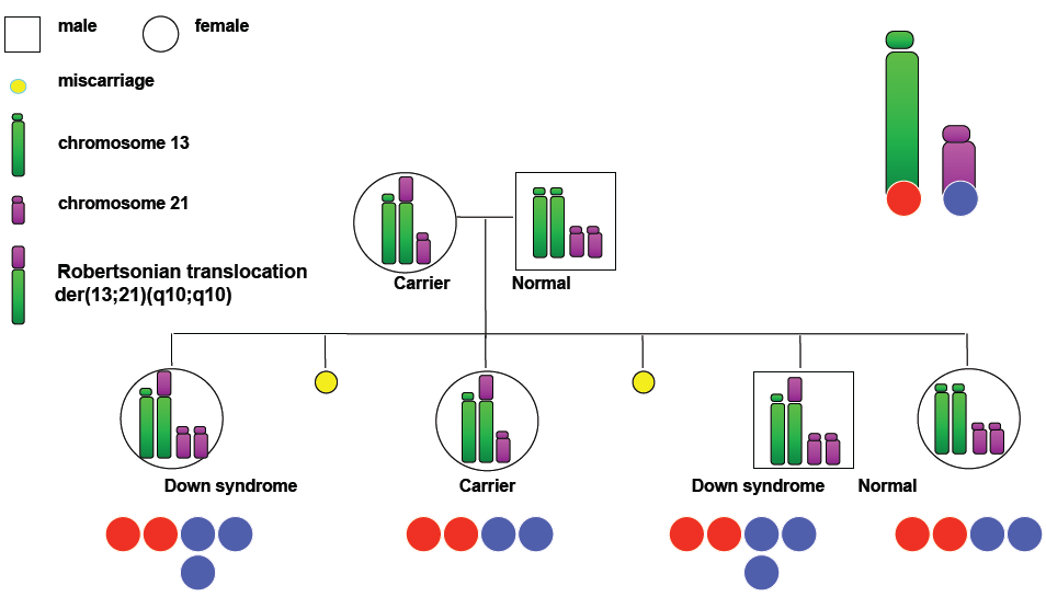 Translocación Robertsoniana en el Síndrome de Down familiar